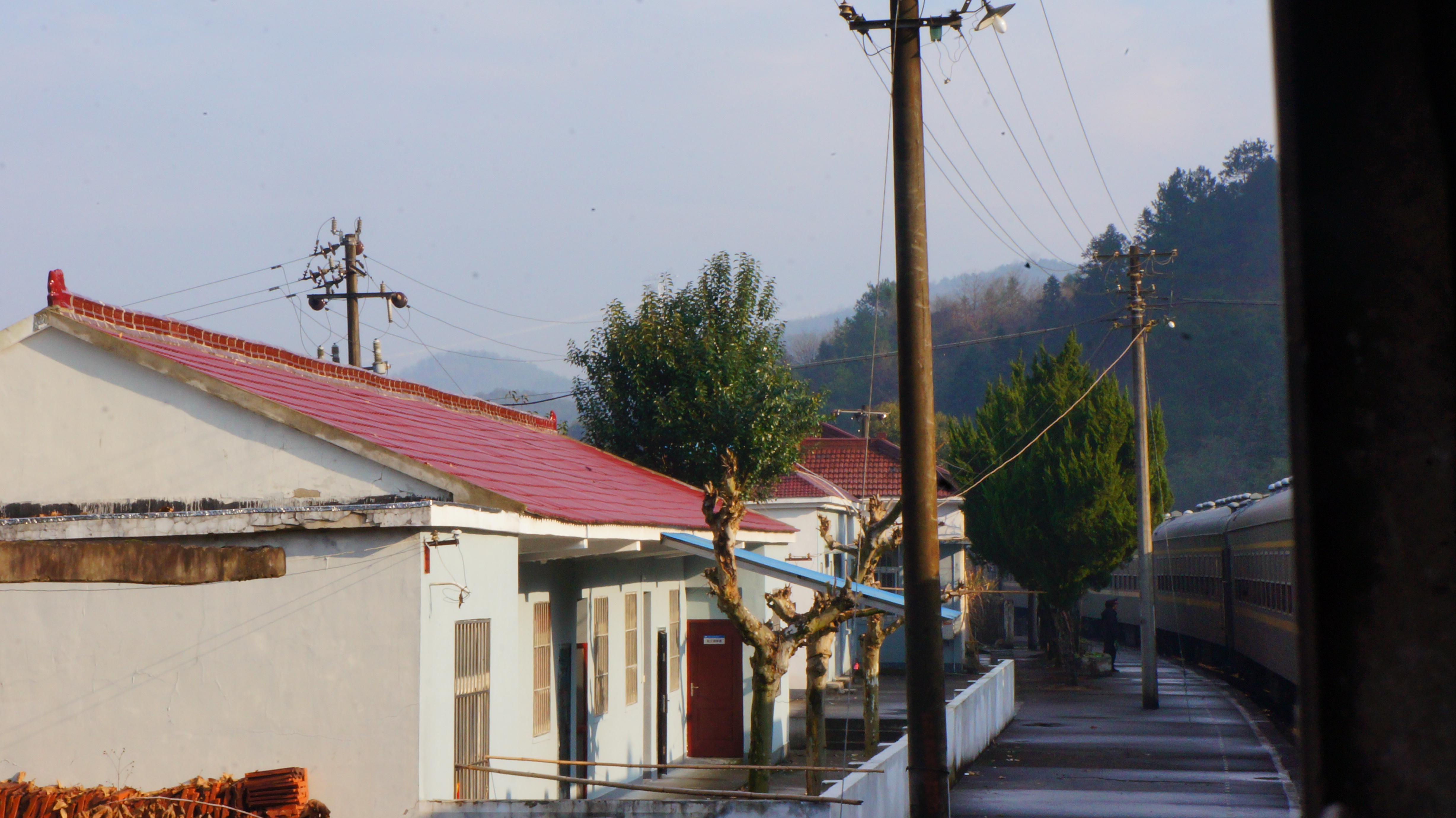 201601 Fuzhu Railway Station